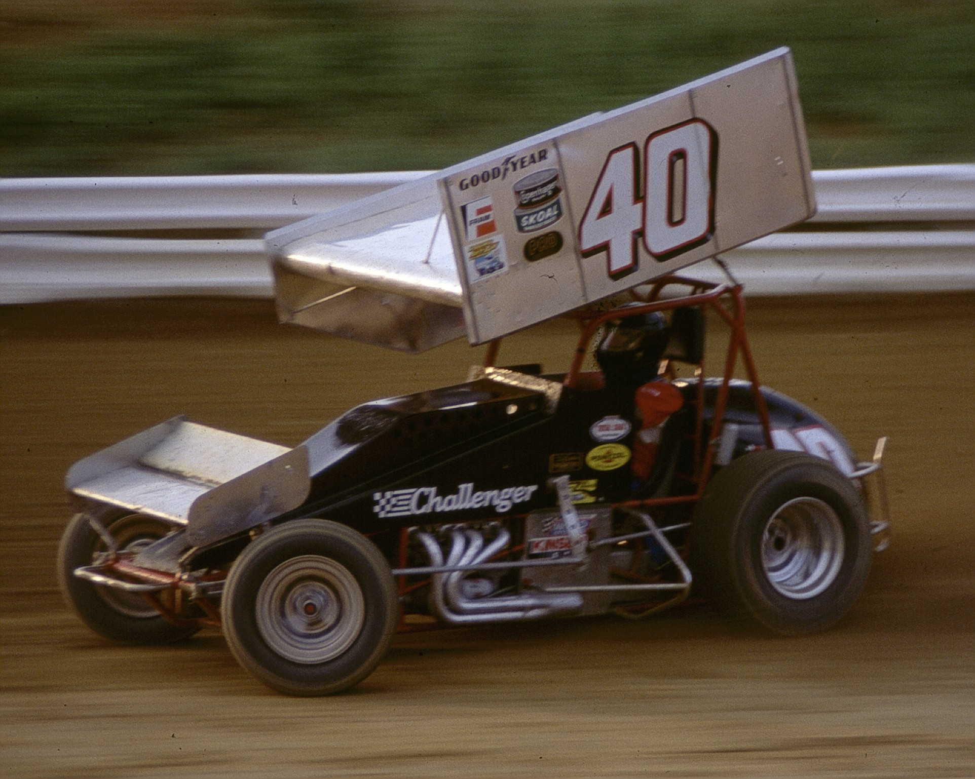 current NASCAR driver Dave Blaney's World of Outlaws sprint car from the 1990s